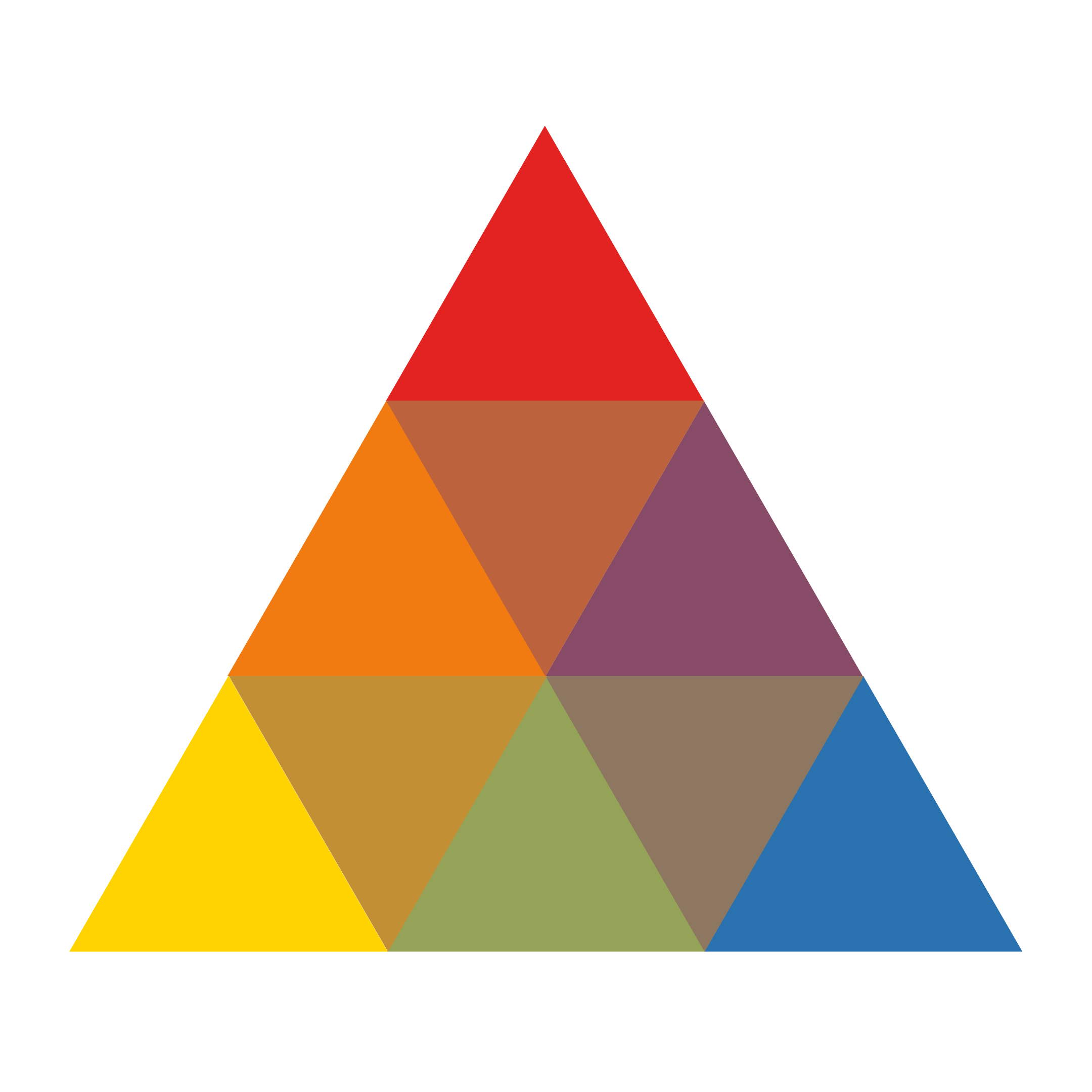 Color model features three Primary colors: red, yellow and blue; Secondary colors: orange, purple and green; and Tertiary colors created via admixture of Secondary colors, as per 'Interaction of Color' (1963).